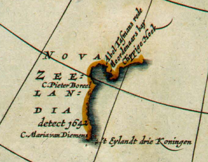 Detail of 1657 map Polus Antarcticus by Jan Janssonius, showing western coastline of New Zealand (labelled "Nova Zeelandia").